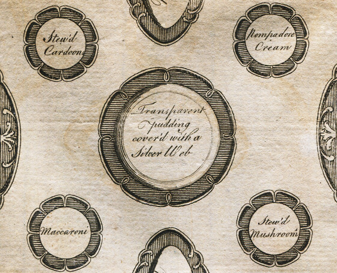 Detail of foldout engraving of table layout for an elegant second course, from Elizabeth Raffald's The Experienced English Housekeeper, 4th Edition, 1775.